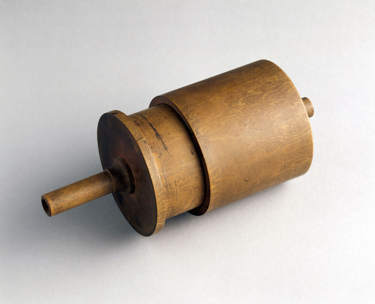 To test ozone levels in the atmosphere, a test paper is held across an air stream drawn into the ozonometer for a fixed length of time or for a fixed volume of air. The test paper, having been treated with chemicals (such as iodide of starch) before exposure, changes colour according to the amount of ozone in the air and can be compared with a prepared scale. Smyth's revisions to his original instrument incorporated a boxwood canister to support the test paper and the design apparently made the measurements both faster and more accurate.